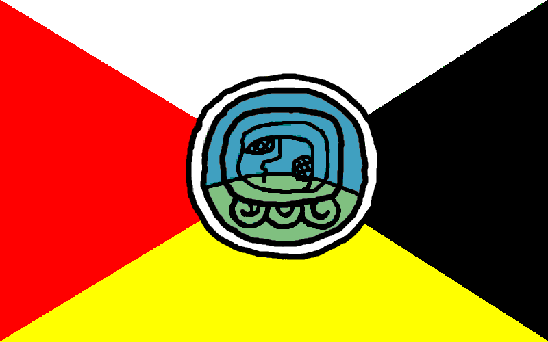 Flag for "indigenous peoples" in Guatemala, officially adopted in 2008. It is shown together with the state flag on official occasions. Its proportions are 5:8. The four sectors symbolizing the cardinal points and the elements of nature, each color represents one ethnic group in Guatemala: white for Maya, black for Mestizo, yellow for Garifuna and red for Xinca. The central emblem is the Q'anil, a Mayan script that represents the earth.